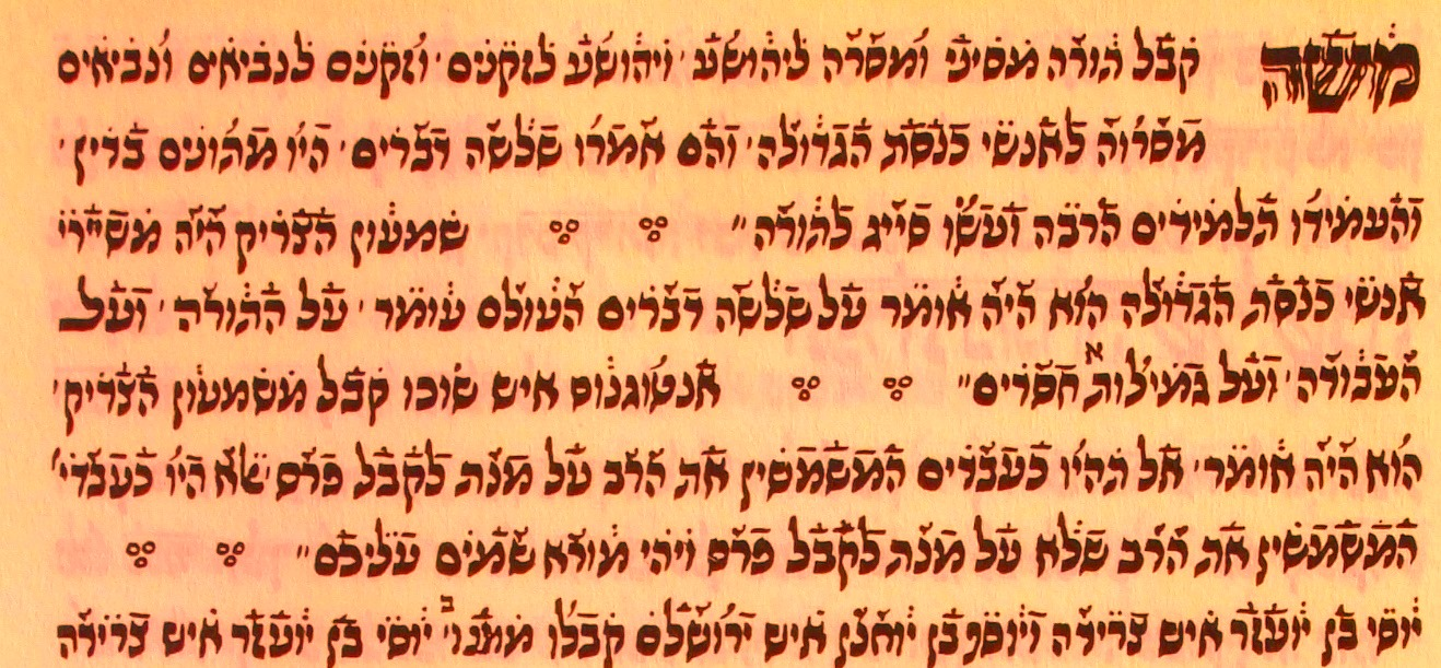 A page scanned by me from an old Yemenite Siddur, handwritten in Yemen in the 1930's, showing the opening lines of Pirke Avot.